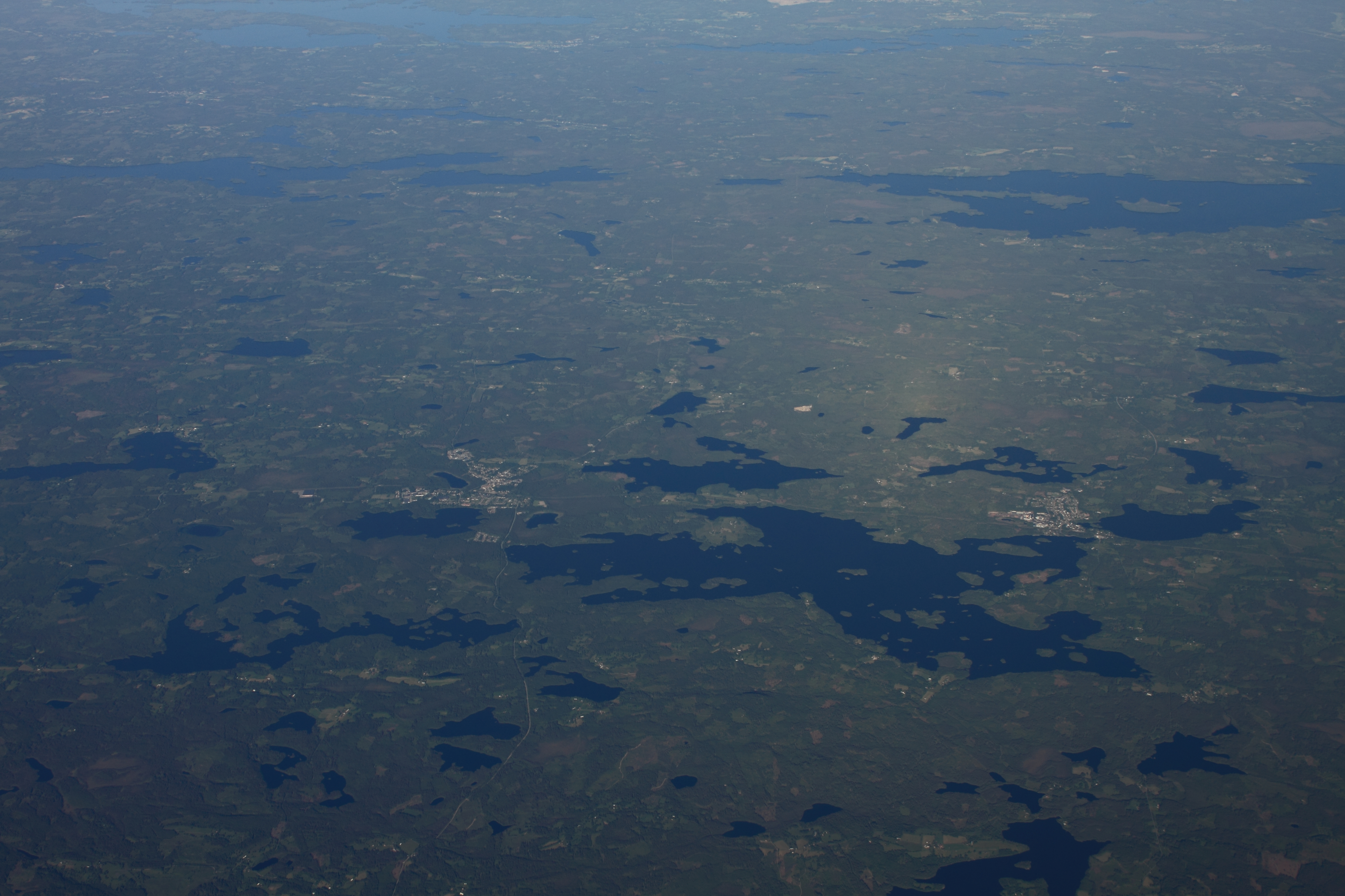 Photo of Lammhult and Rörvik taken from commercial flight between Norway and Poland.